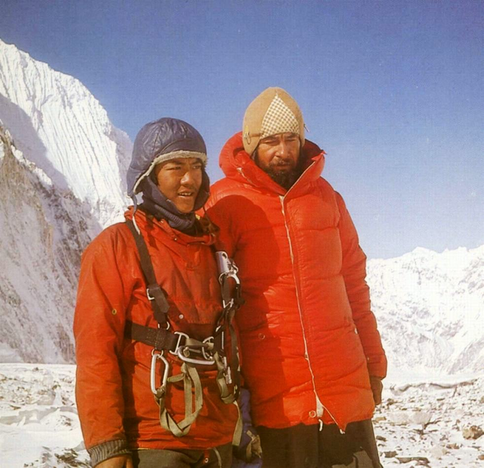 Pasang Norbu Sherpa and Andrzej Heinrich after unsuccessful attempt of first winter assent of Mount Everest on February 15, 1980.